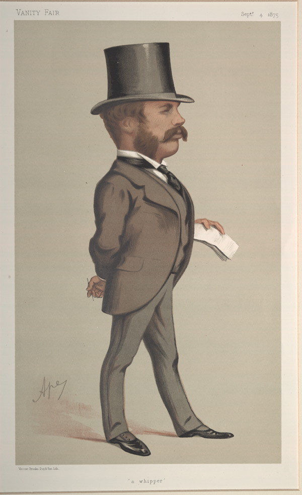 Statesmen No.213: Caricature of Mr WH Dyke MP. Caption reads: "a whipper"